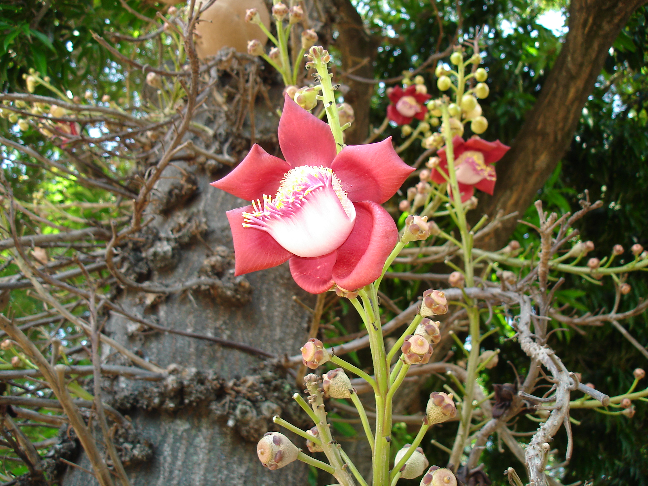 Flower of Courupita guianensis (Abricó de macaco)